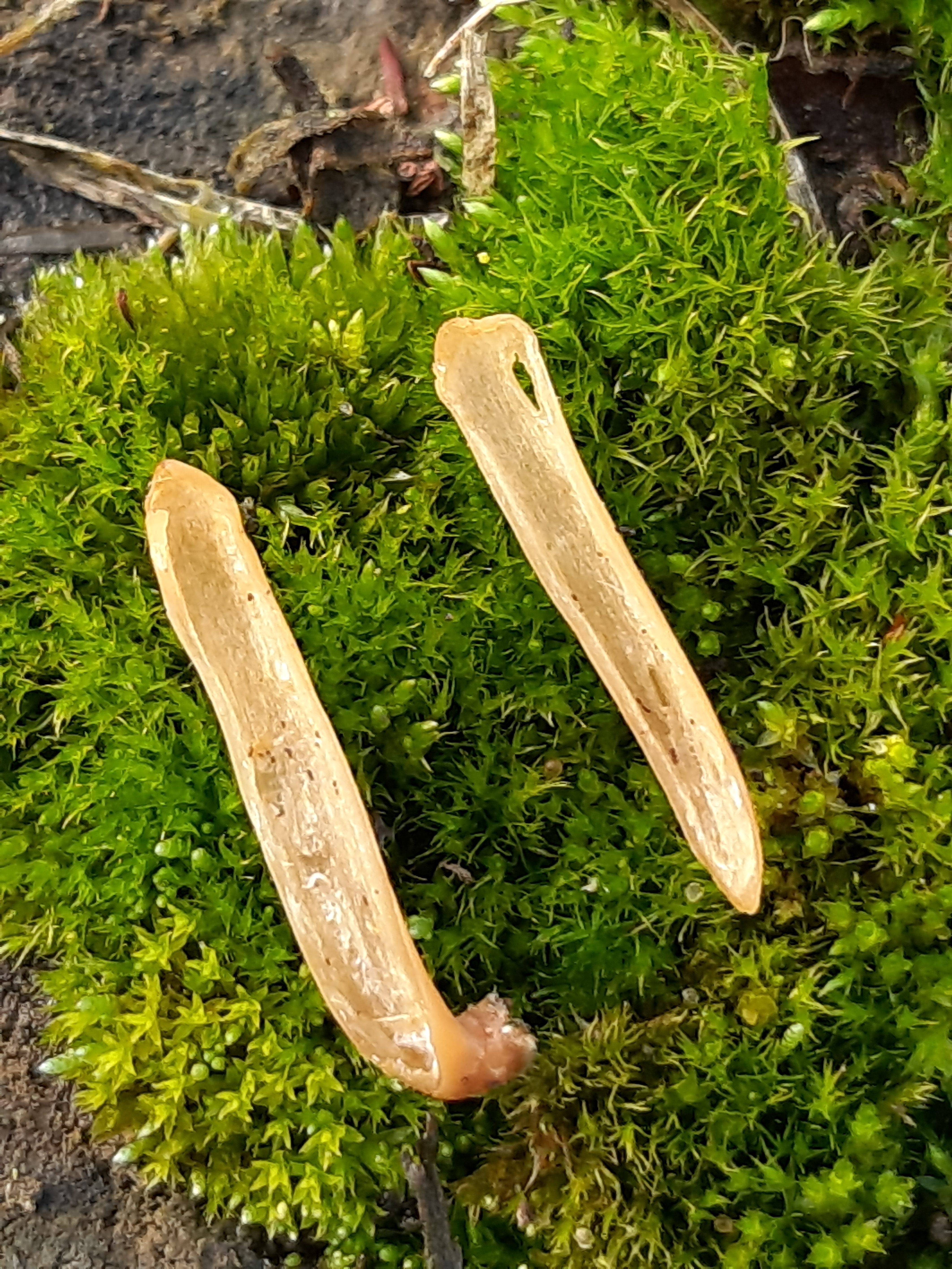 cross-section of the fruiting body